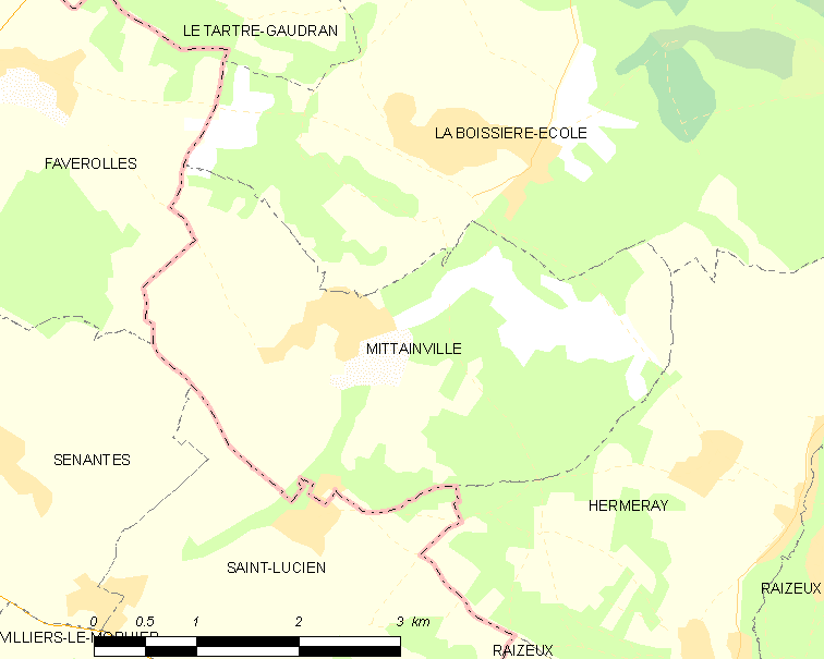 Map of French municipality Mittainville